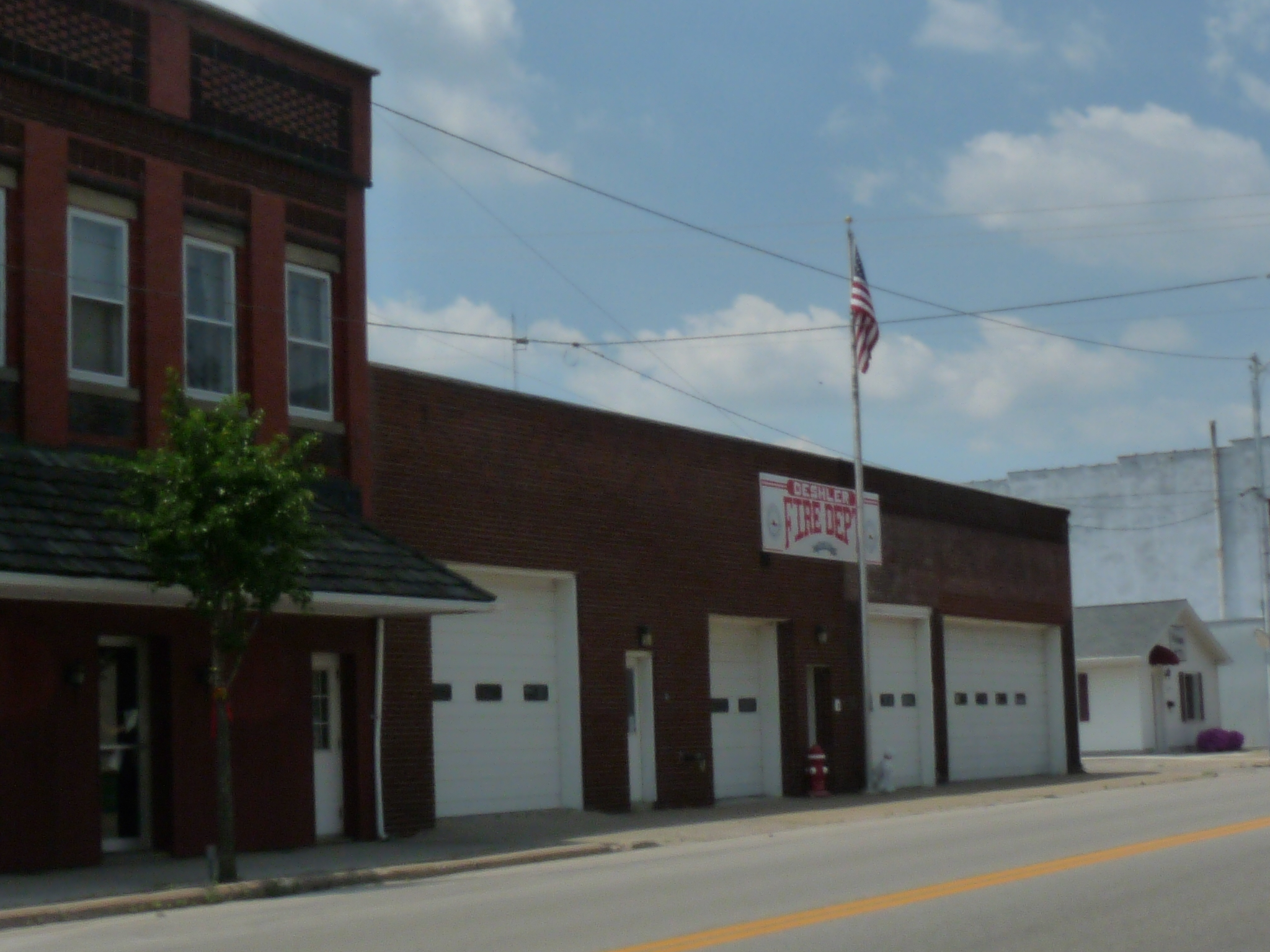 Deshler Fire Department, Main Street, Deshler, Ohio